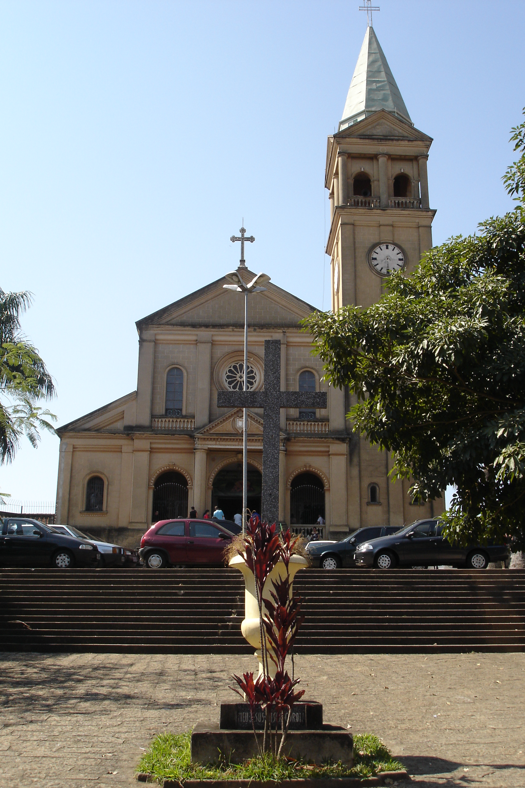 Saint Thérèse of Lisieux Church, Bragança Paulista, Brazil